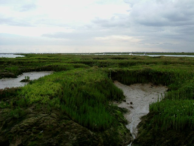 Ray Spit. This is a view along the Spit of Salt marsh that extends to the southwest of Ray Island (Strood Channel is to the left). This is as far as I could get into the marsh without taking a mud bath. The inlets and little creeks that characterise the salt marsh make Hampton Court Maze seem like a doodle. I had to retrace my steps several times when I got “lost” among the channels. I was very glad I turned back a couple of hours before high tide or else panic may have set in!